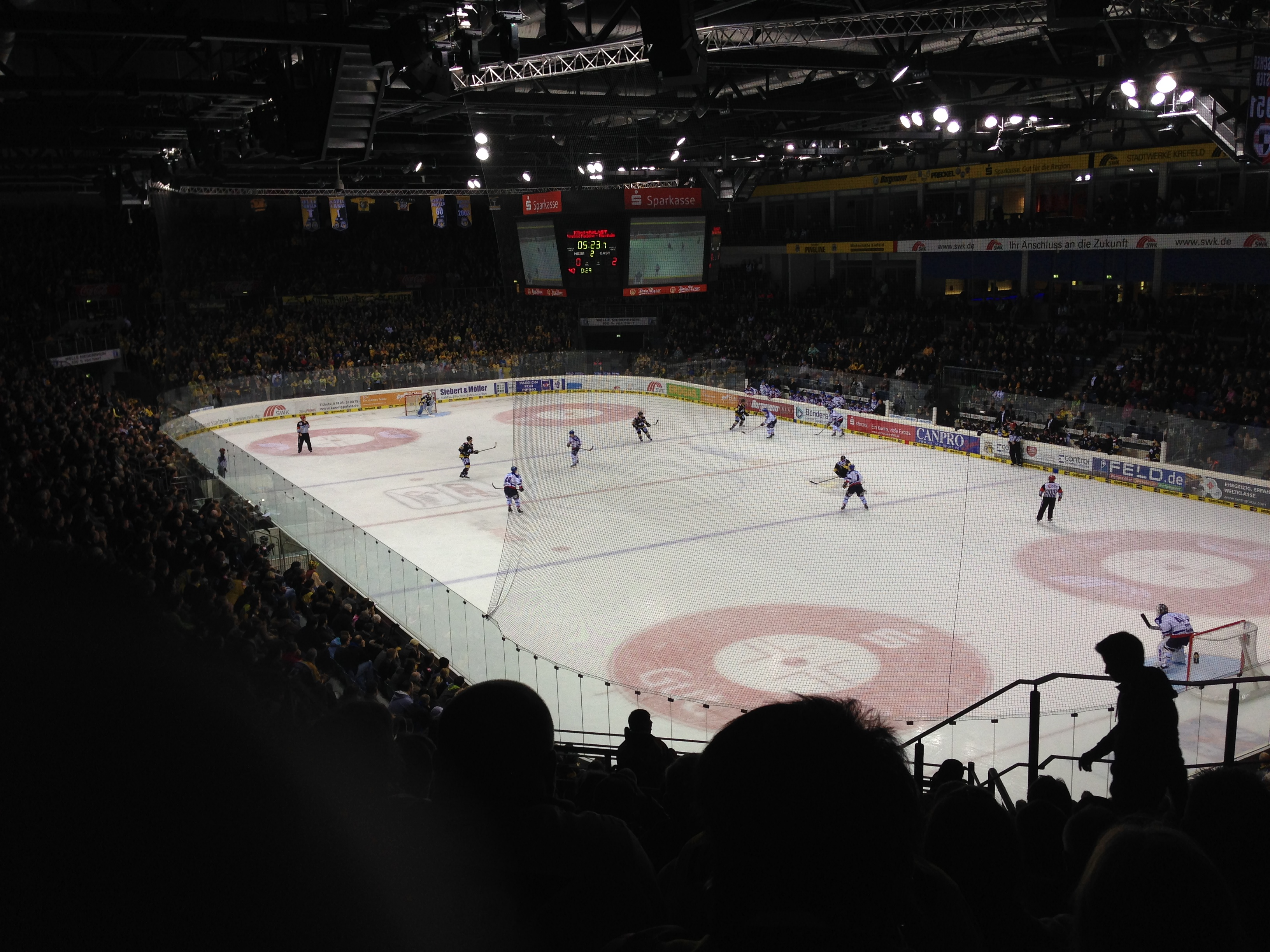 Königpalast in Krefeld (Germany) during a game of the Krefeld Pinguins